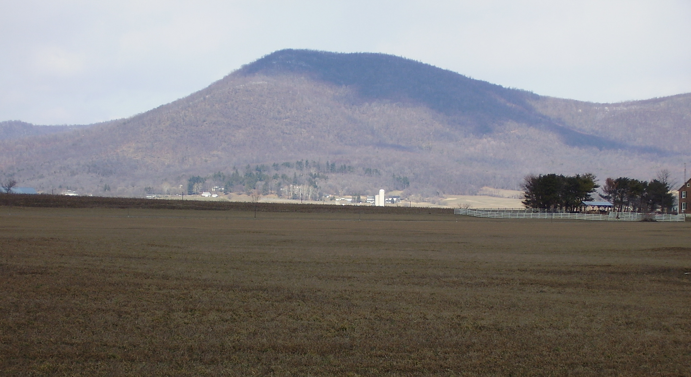 Parnell Knob from the "Great Appalachian Valley" by: Joe Calzarette